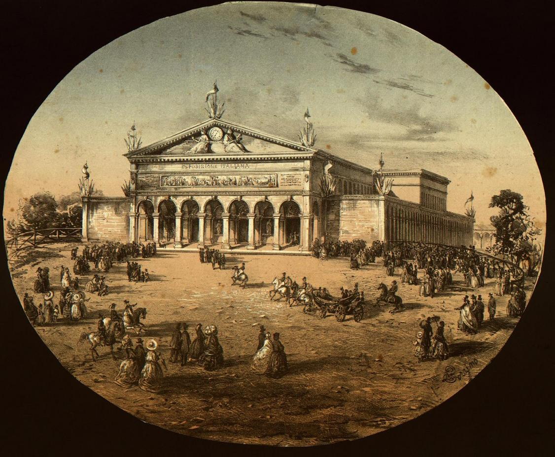 National Exhibition in 1861 (Florence)